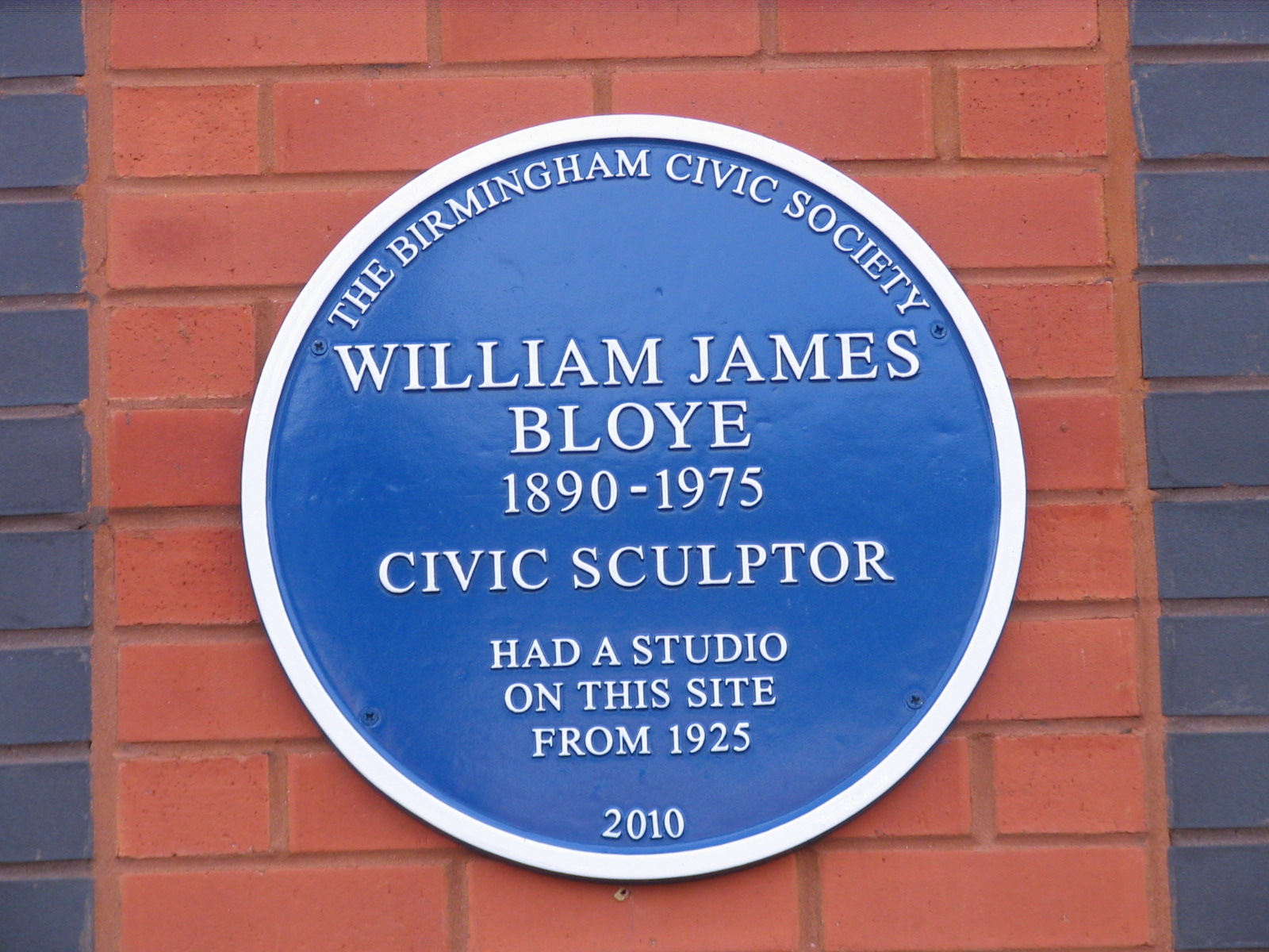 Blue plaque commemorating William Bloye at Small Heath, Birmingham.